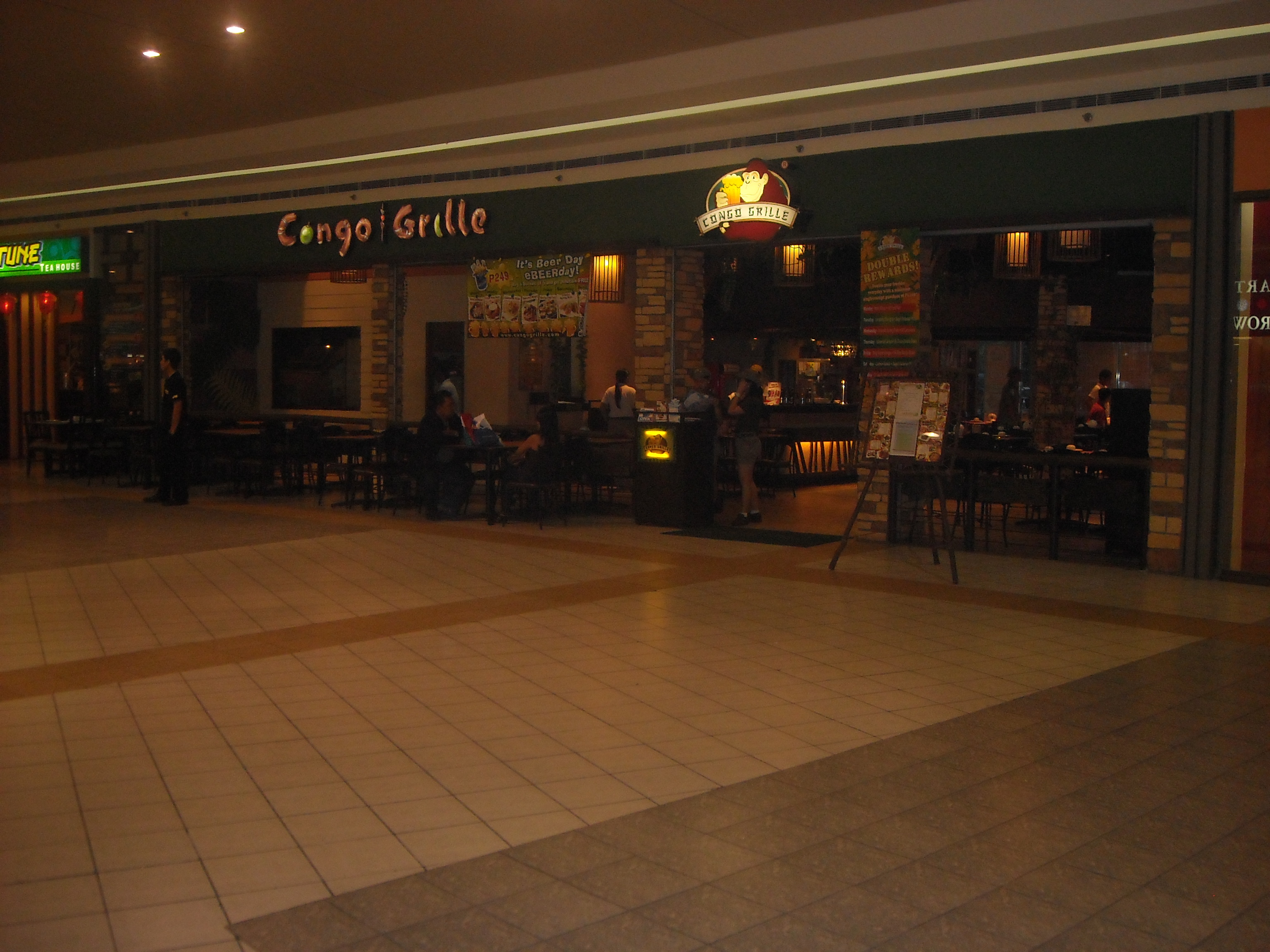 Front of Congo Grille in Angeles City.